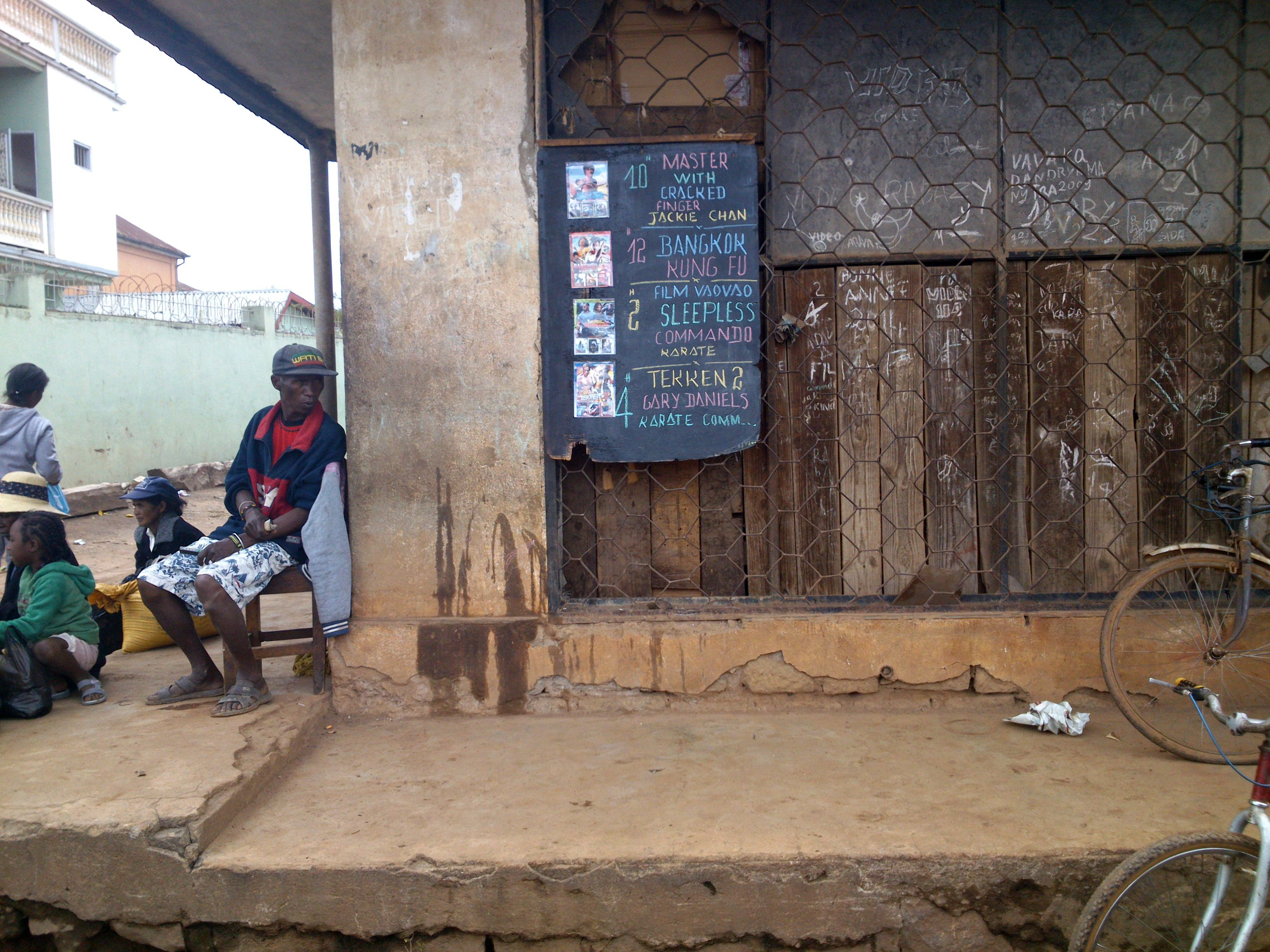 Malagasy: fijerevana film avy any ivelany na eo antoerana This is an image of "African people at work" from Madagascar